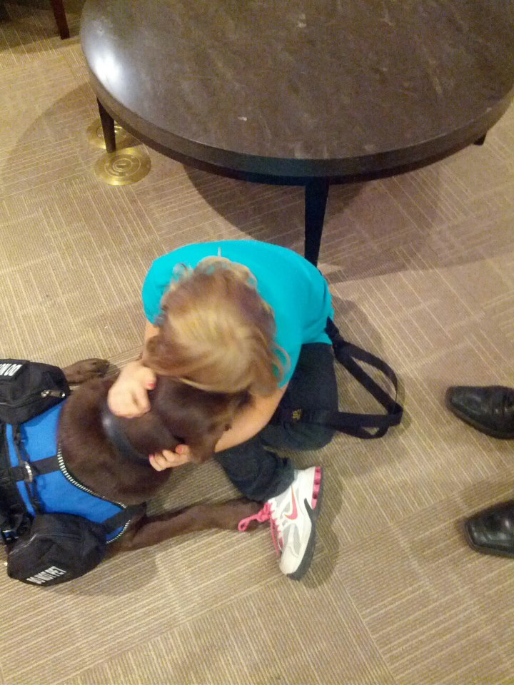 Child hugging service dog.